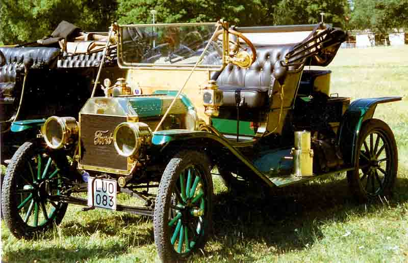 1910 Ford Model T Roadster